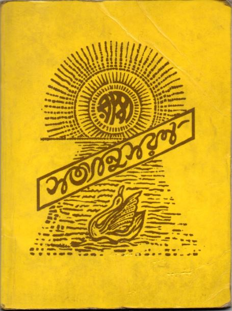 In Bengali Year 1316 (1910 A.D.), Sri Sri Thakur AnukulChandra at 22 years of age , in the course of one night wrote Satyanusaran.